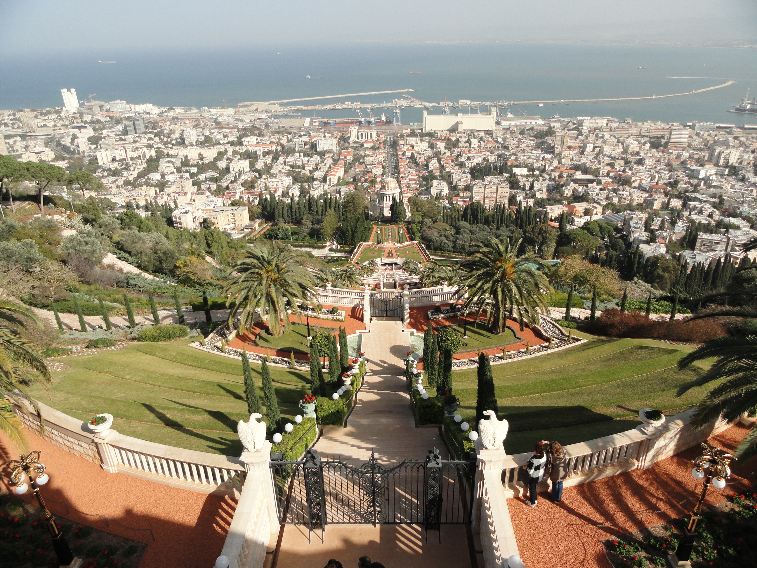 Yefe Nof: view from the upper main entrance of the Bahai garden: the terraces, the Bab shrine with its golden dome, followed by the German Colony (Ben Gourion Ave). In the back on the right the Dagon (grain silo)